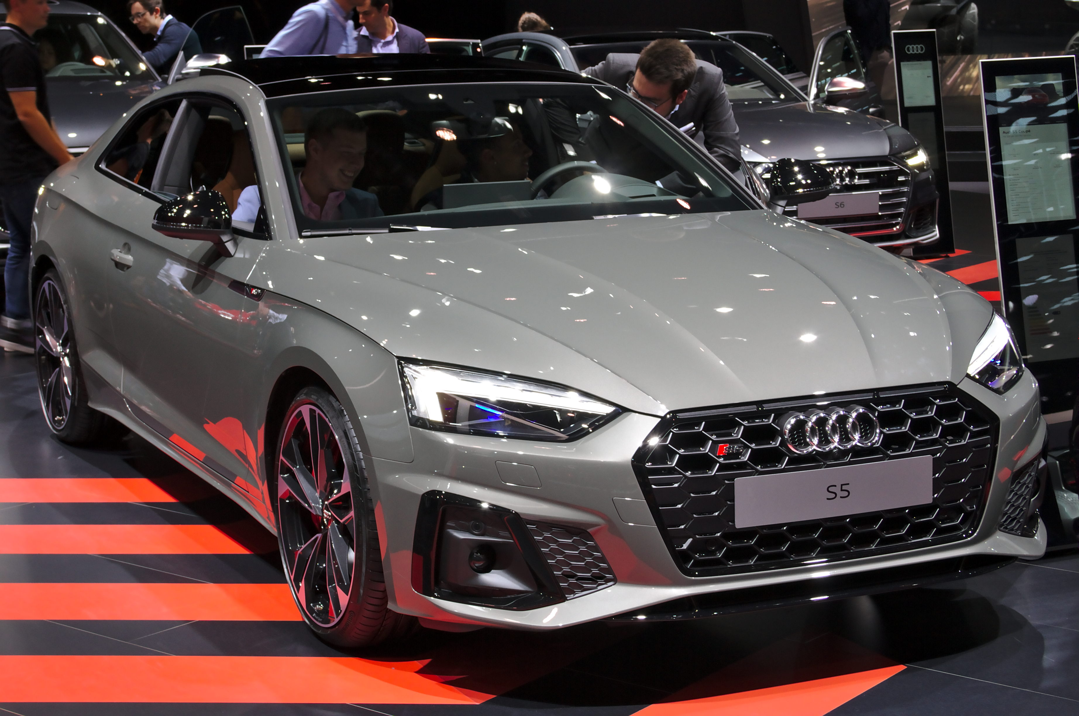 Audi S5 Coupé F5 at IAA 2019